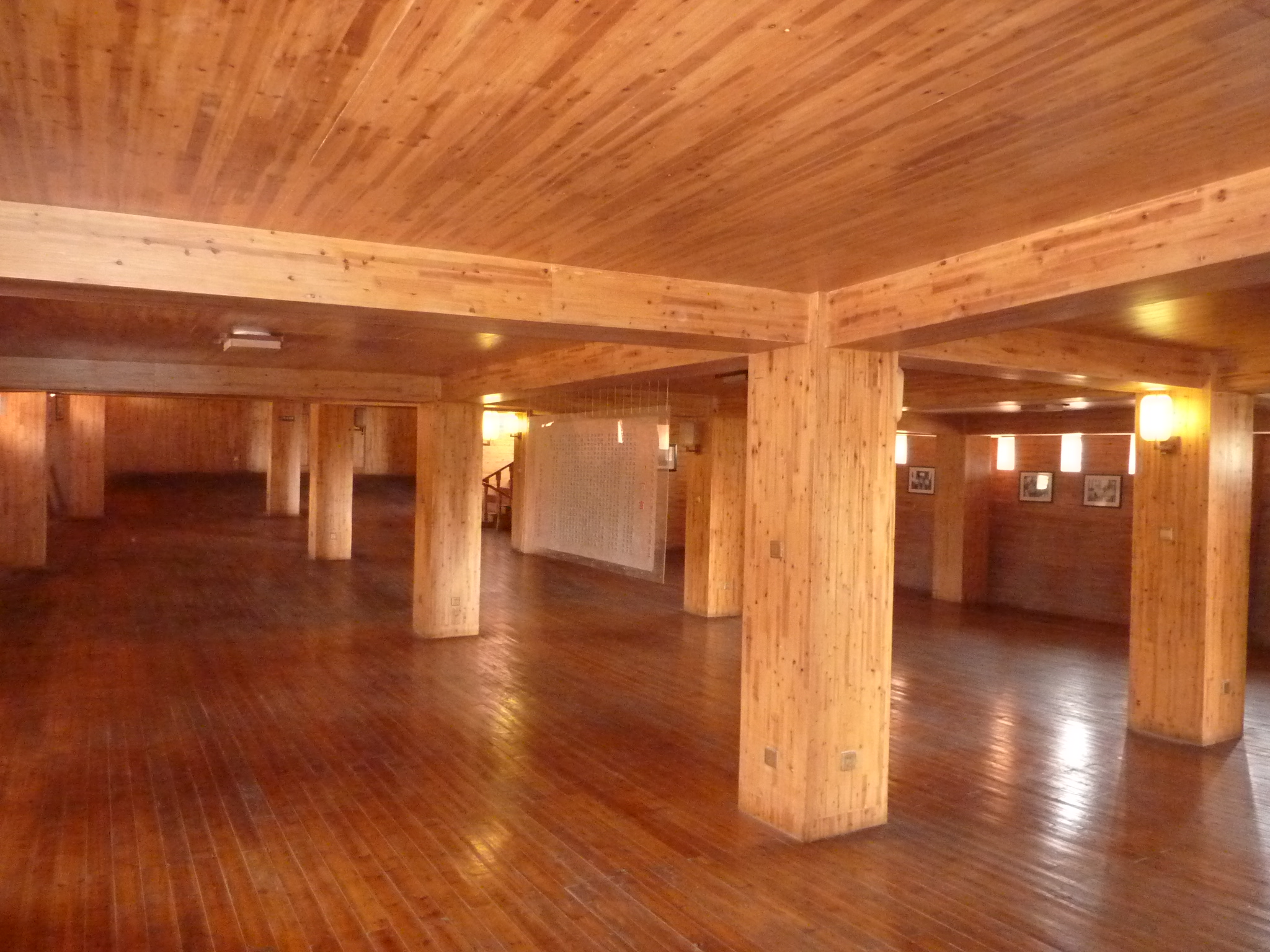 Inside the model Treasure Ship at Nanjing Treasure Boat Shipyard